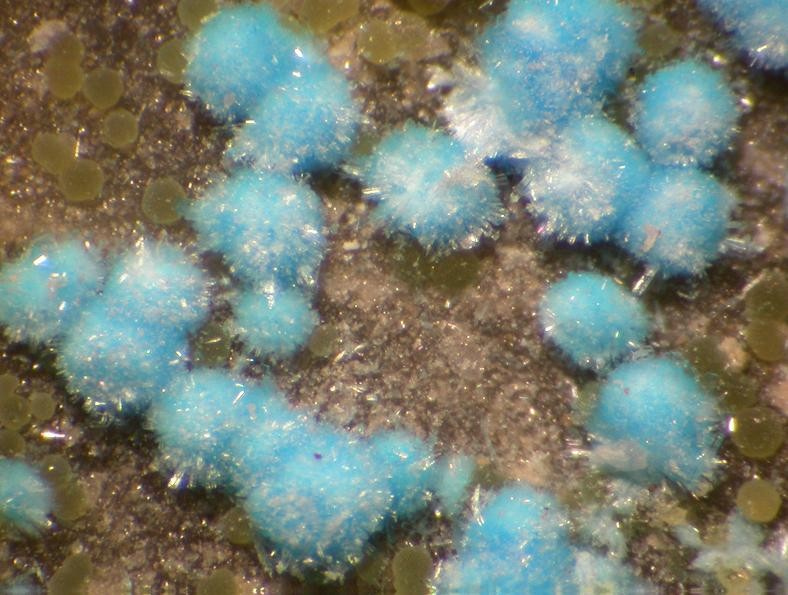 Nevadaite Locality: Gold Quarry Mine (Maggie claims), Maggie Creek District, Eureka County, Nevada, USA (Locality at ) Blue Nevadaite together with small green Variscite balls. Field of view 4 mm. Specimen and photo Leon Hupperichs.